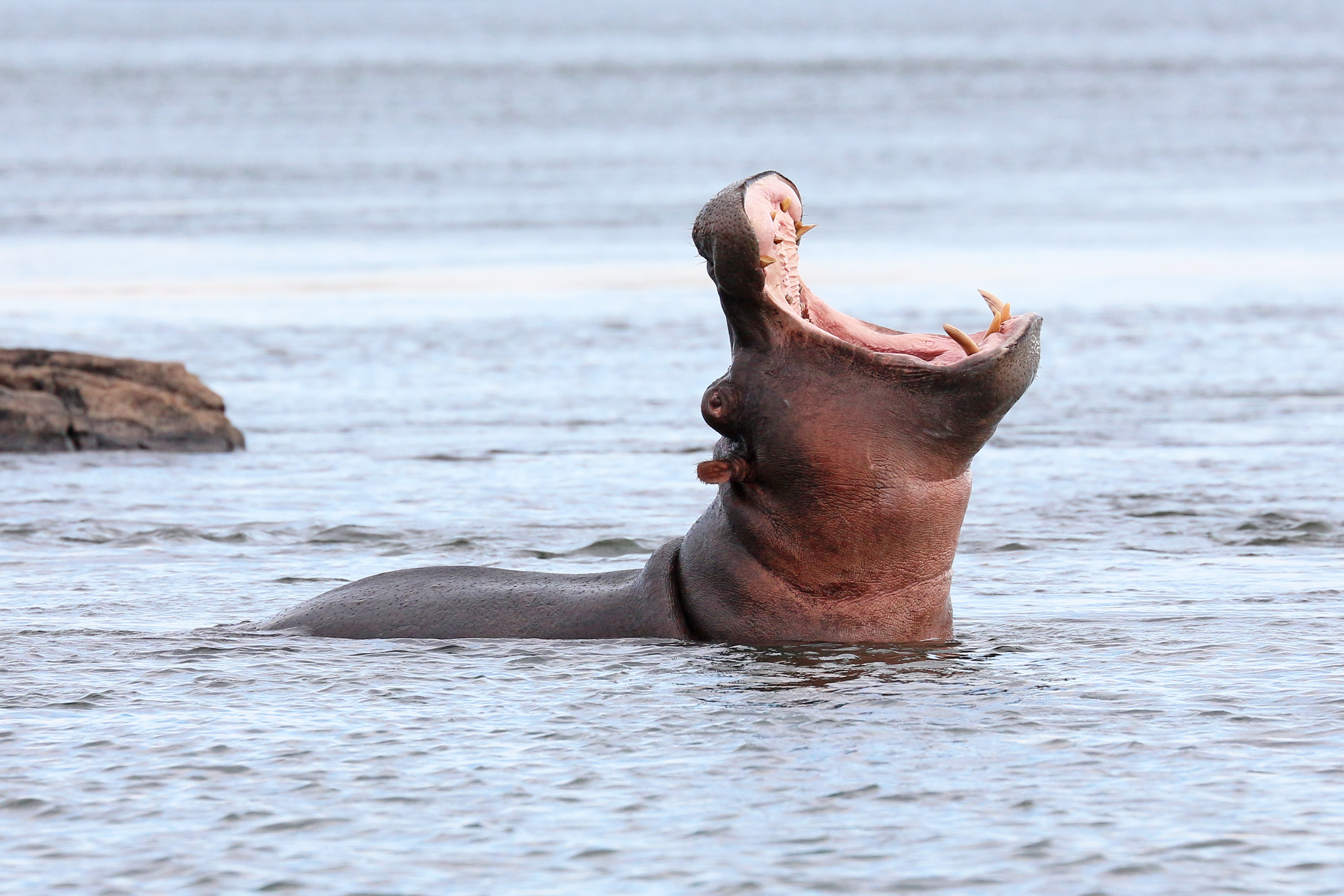 Hippopotamus in the Zambezi River (Hippopotamus amphibius), Zimbabwe